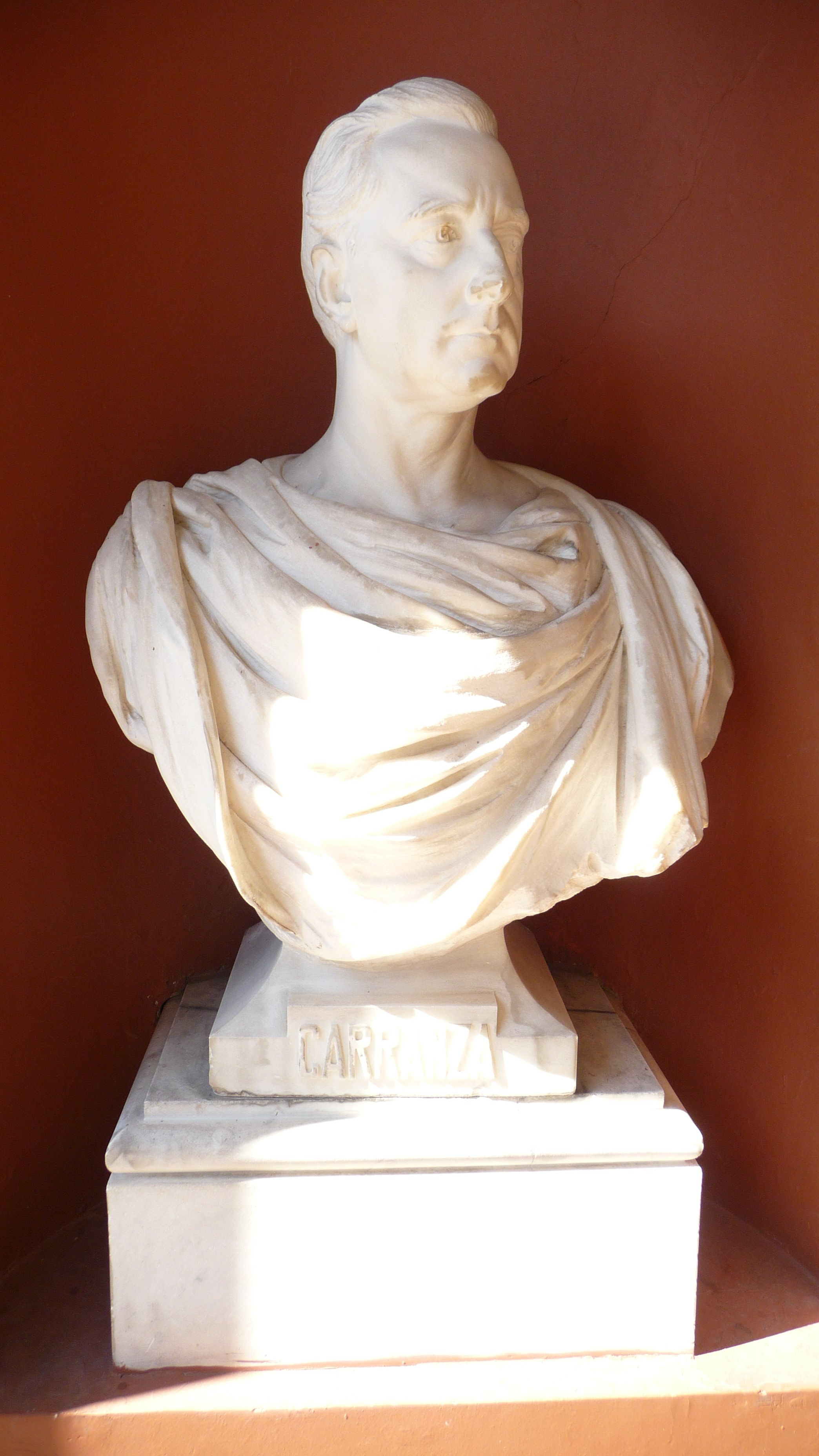 Bust of Adolfo P. Carranza, founder and first director of the Museo Histórico Nacional